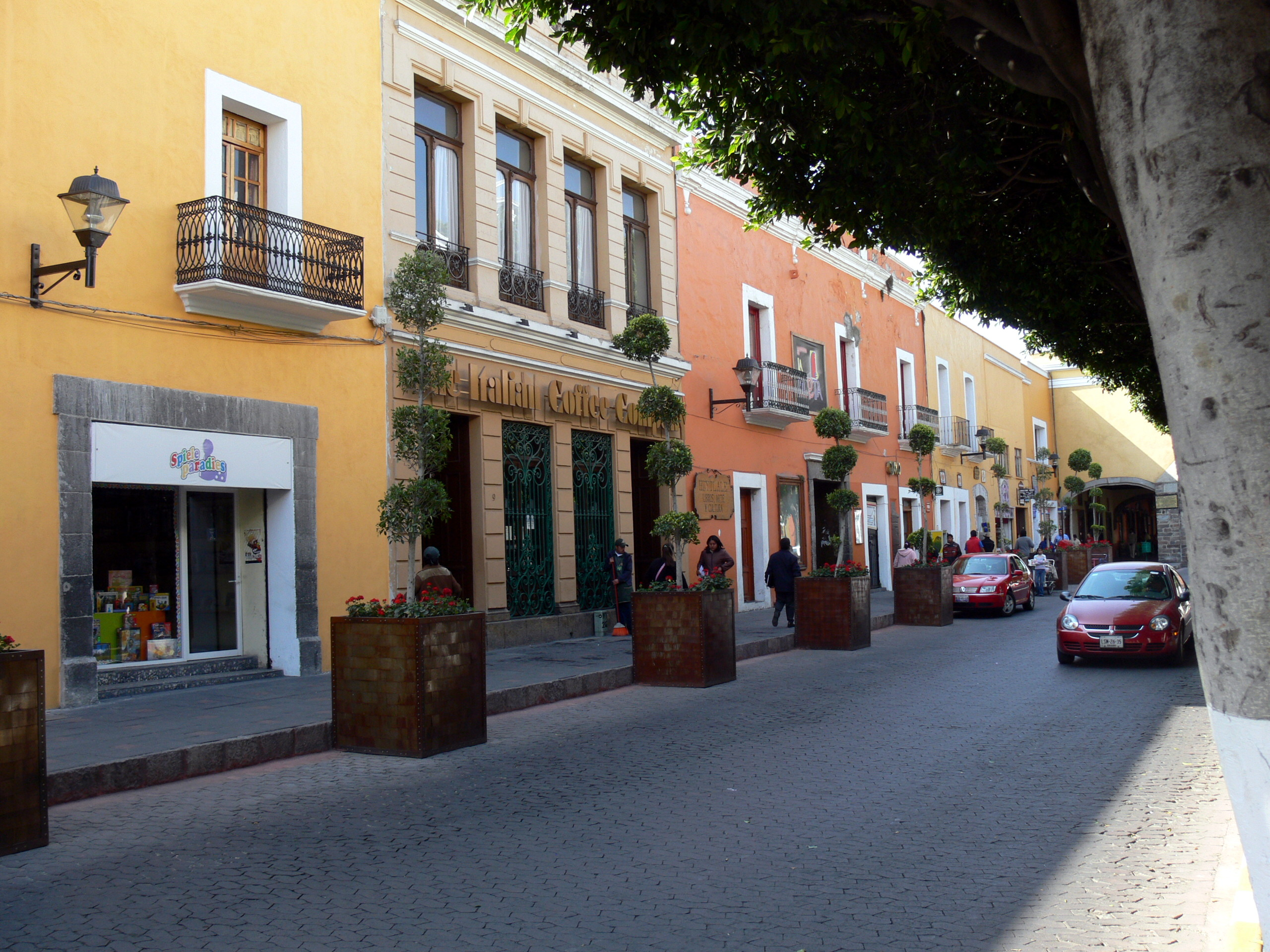 Tlaxcala city. Avenida Juarez in the old town.